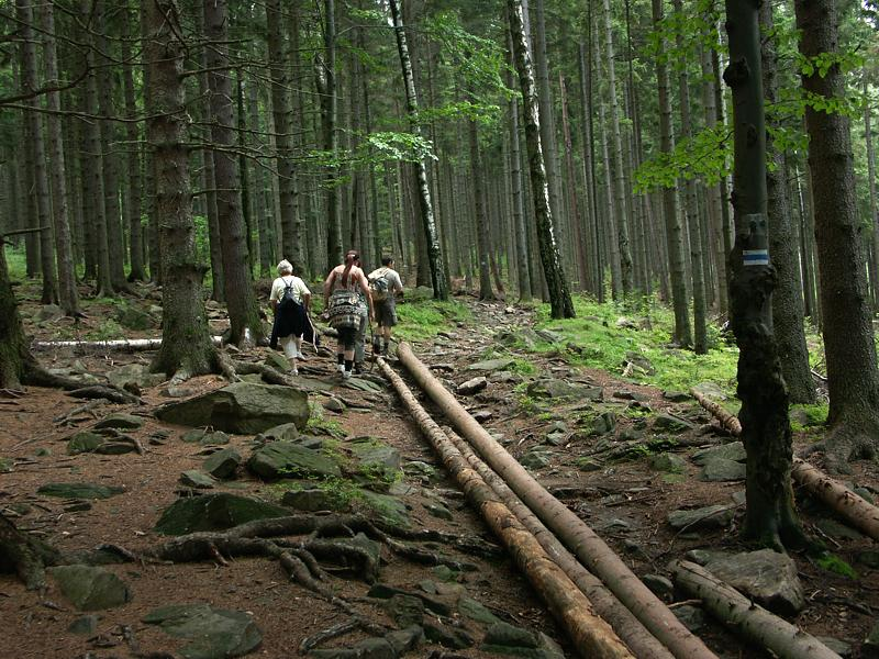 Trail to mountain Trojak (Góry Złote, Lower Silesia, Poland).